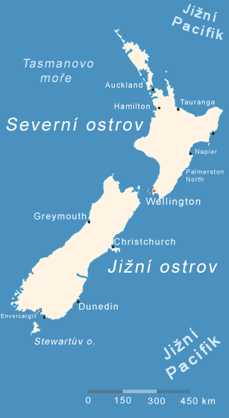 Map of New Zealand.